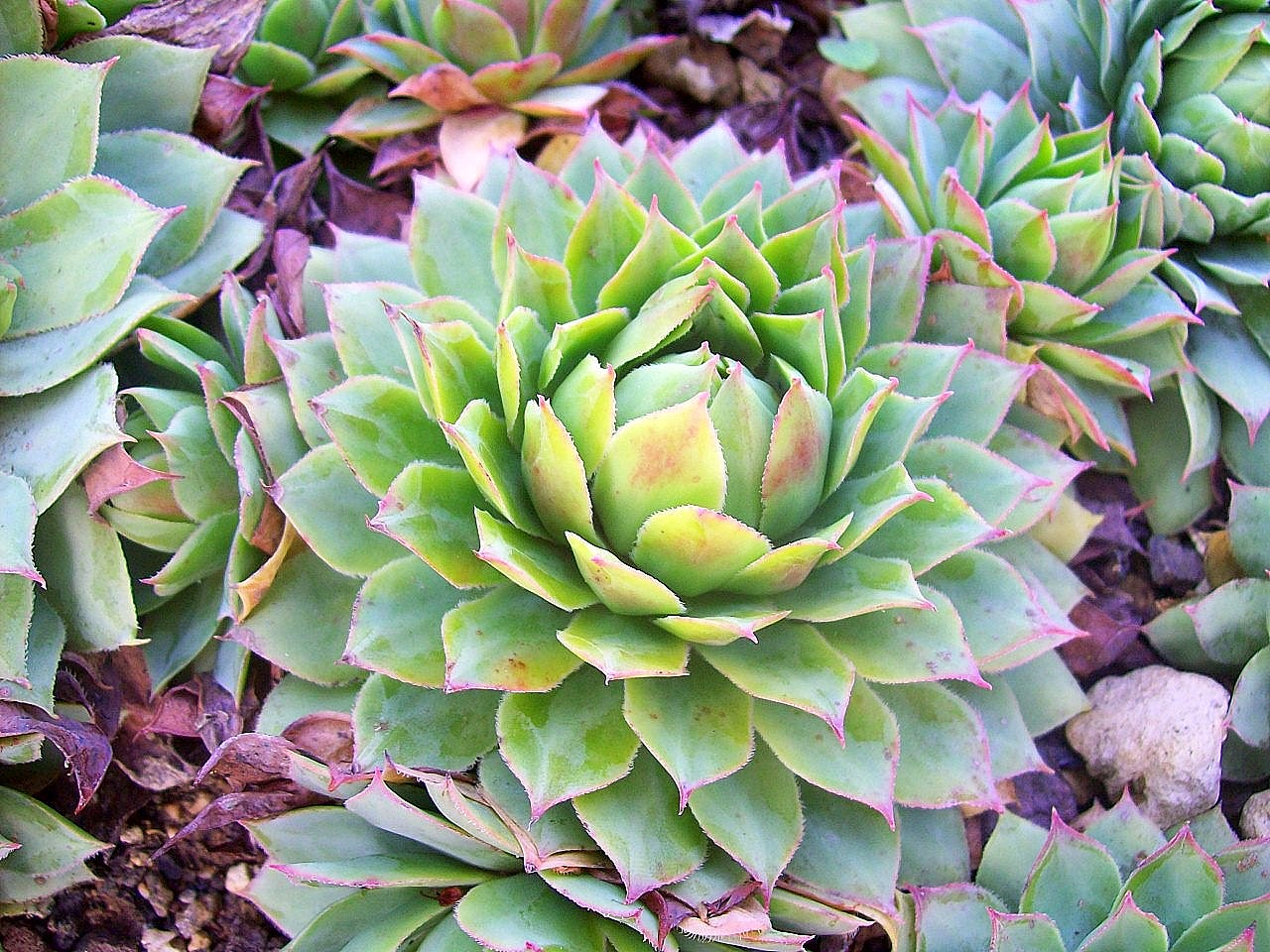 Sempervivum wulfenii (de: Gelbe Hauswurz), origin: Alps